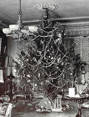 Christmas Tree in 1900.